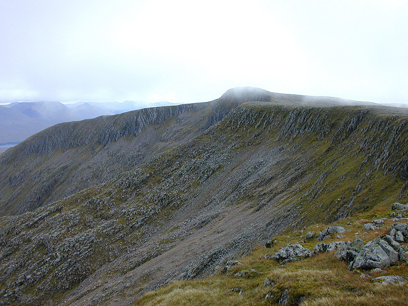 View south from Creise Looking along the crags from Creise to the distant Clach Leathad, with the connecting ridge to Meall a' Bhuiridh in the middle distance.